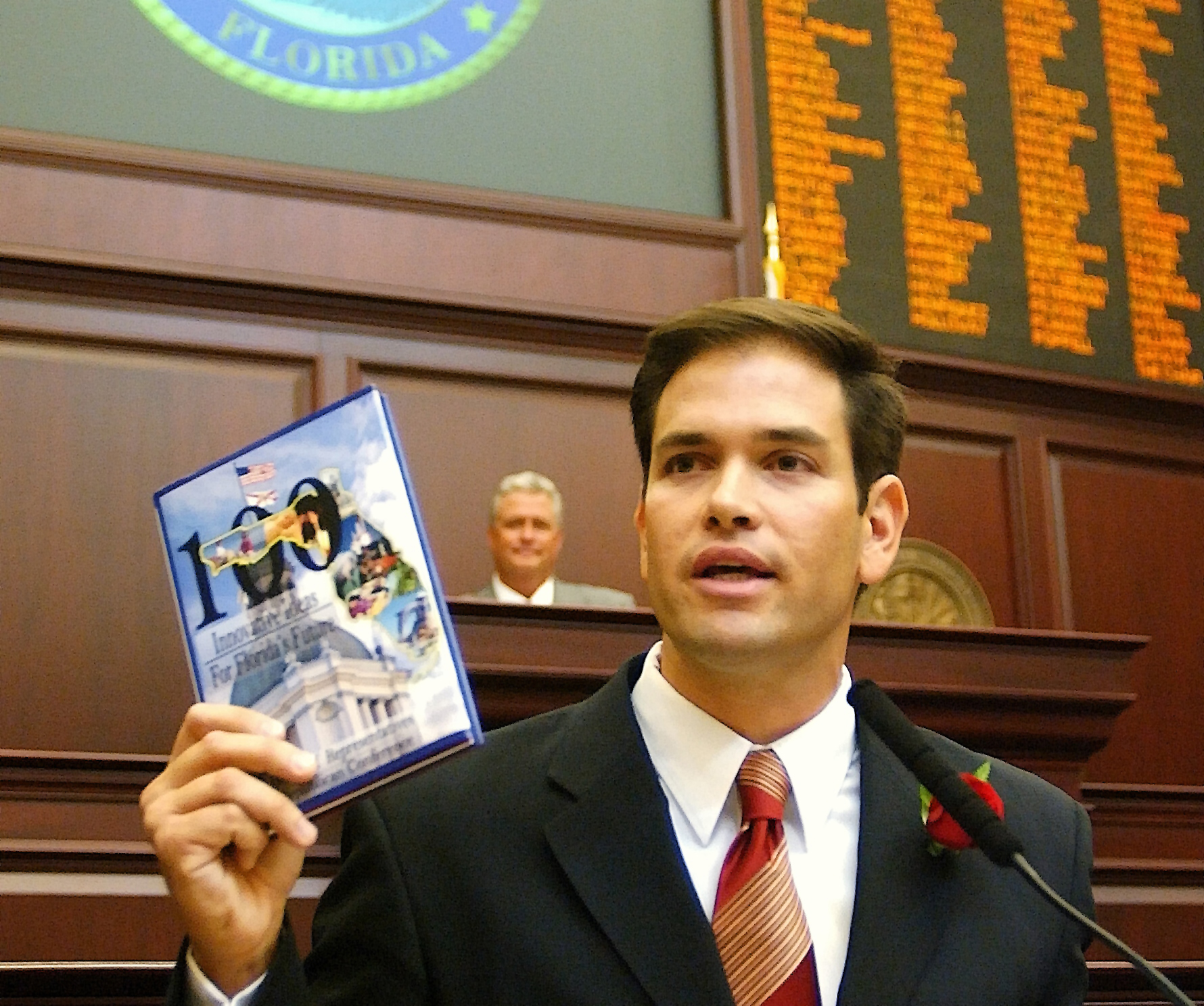 Rep. Marco Rubio, R-Miami, challenges his House colleagues to begin adding to the blank pages of a book entitled 100 Innovative Ideas For Florida's Future that he presented to each member. Rubio was selected by Republican colleagues to be the first Cuban American Speaker-designate Tuesday, September 13, 2005.